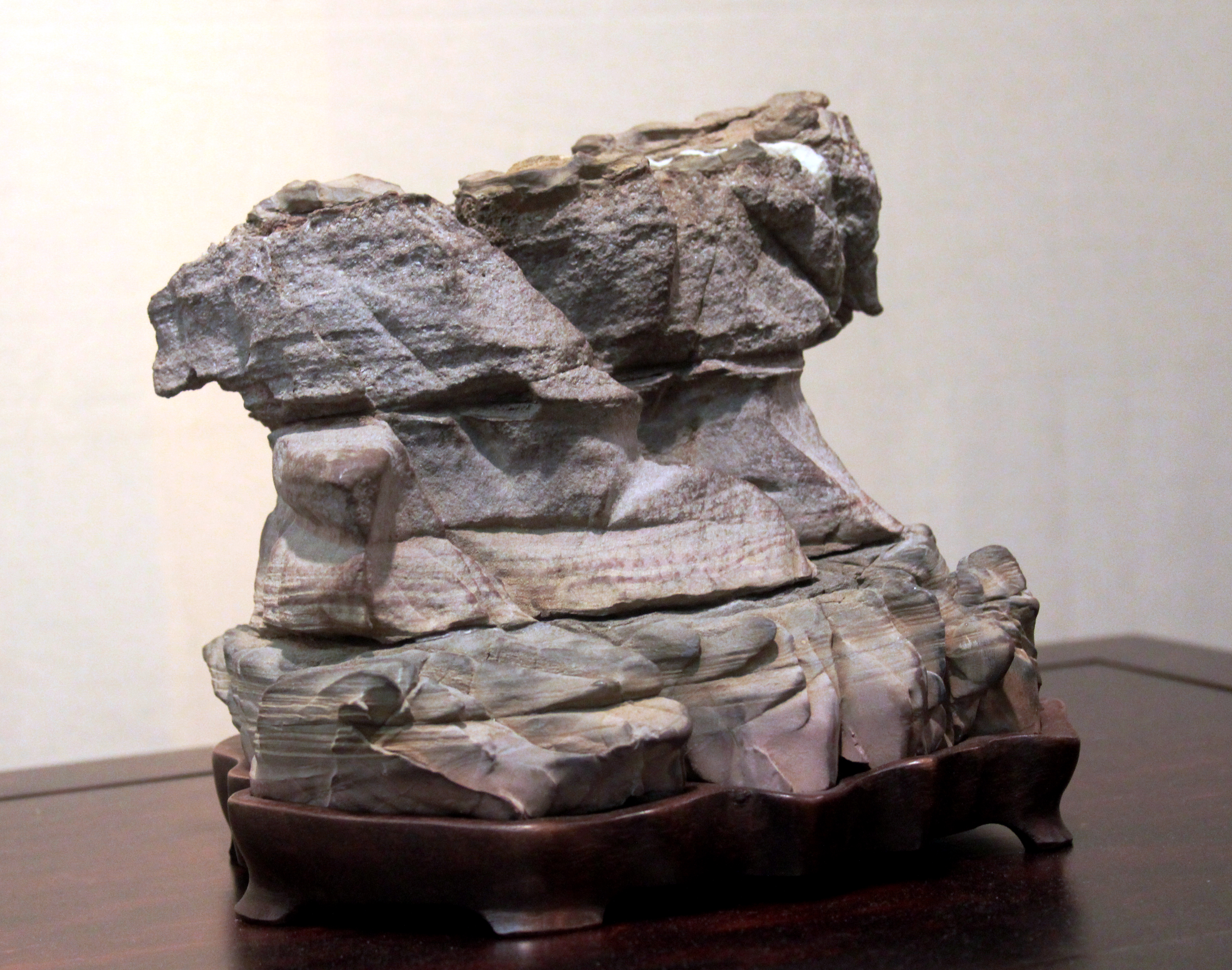 One exhibit on International exhibition "Suiseki and Shangshi" in Troja Castle, Prague, Czech Republic 2011